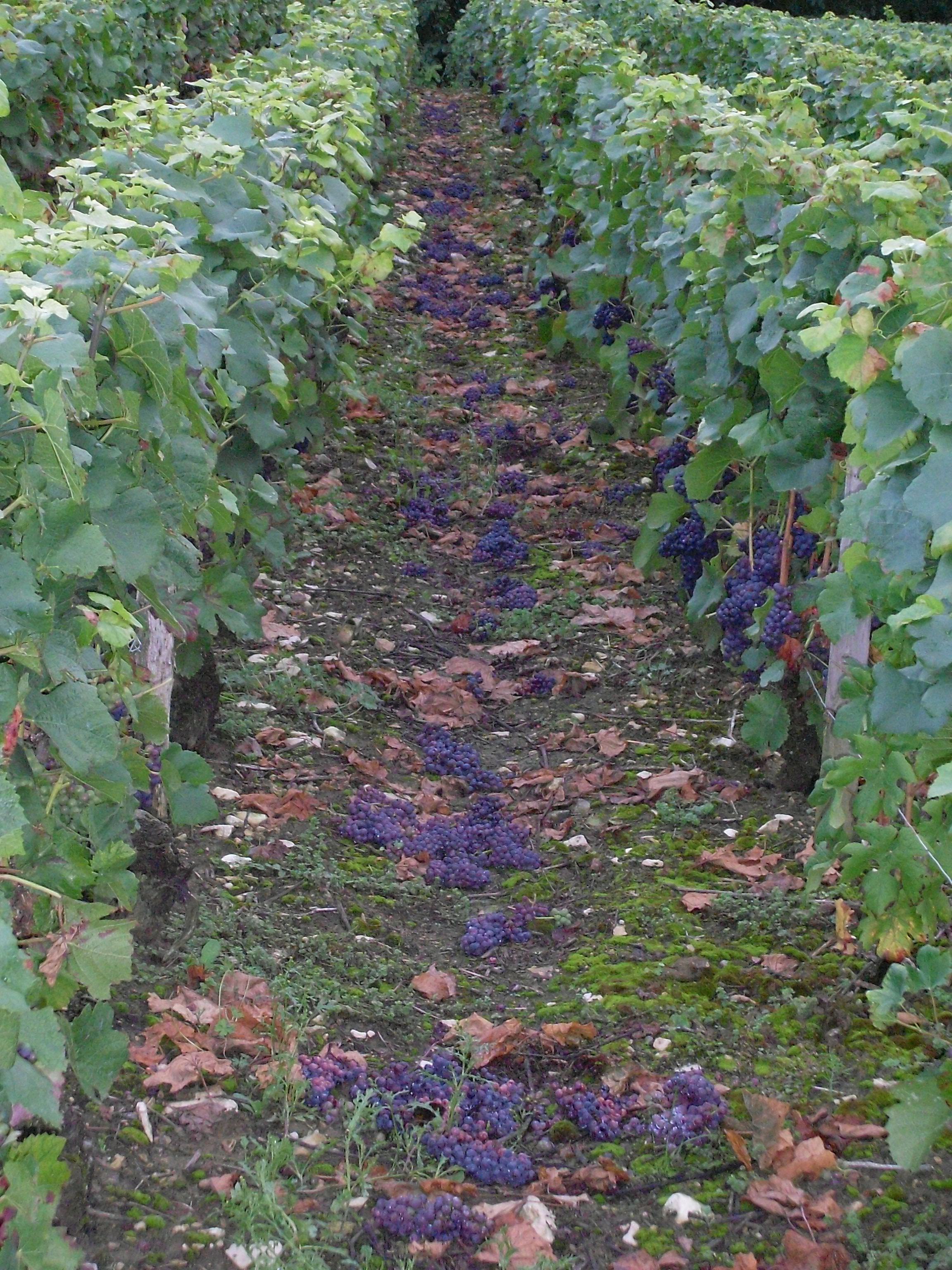 Bunches of Pinot noir grapes left on the ground after a round of "green harvesting". This is where yields are reduced in the final stages of ripening in order to focus the grapevine's energy on producing better quality grapes with the remaining bunches.